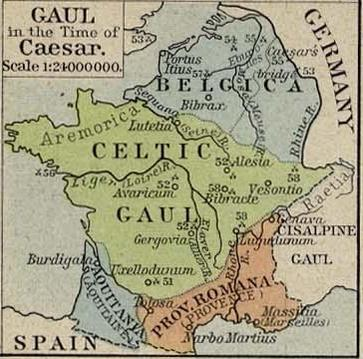 Gaul in the Time of Caesar (an inset, cut from the main map)